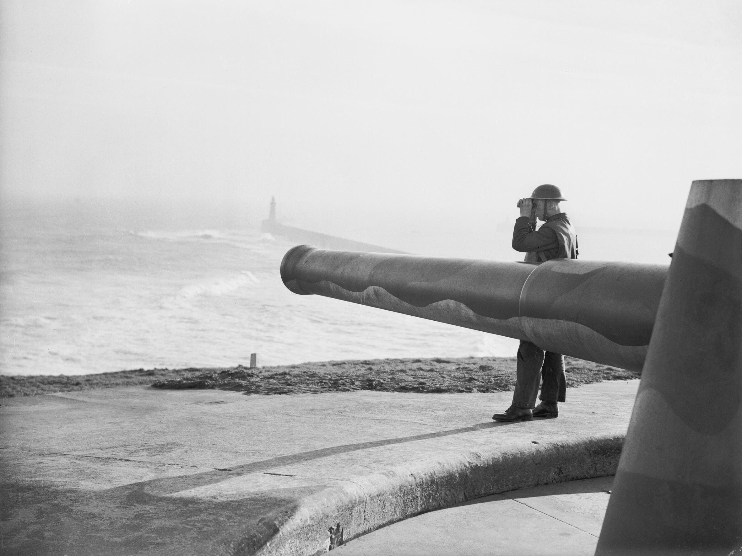 A gunner keeps watch at the 9.2 inch gun coastal defence battery at Castle Priory, Tynemouth, 28 November 1940. A gunner keeps watch at the 9.2 inch gun battery at Castle Priory, Tynemouth, England, manned by 508th Coastal Regiment, Royal Artillery. This operation formed part of British preparations to repel the threatened German invasion of 1940